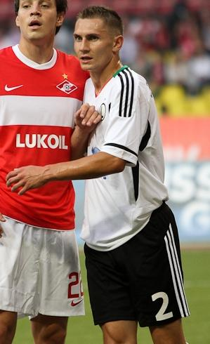 Artur Jędrzejczyk with Legia Warszawa.